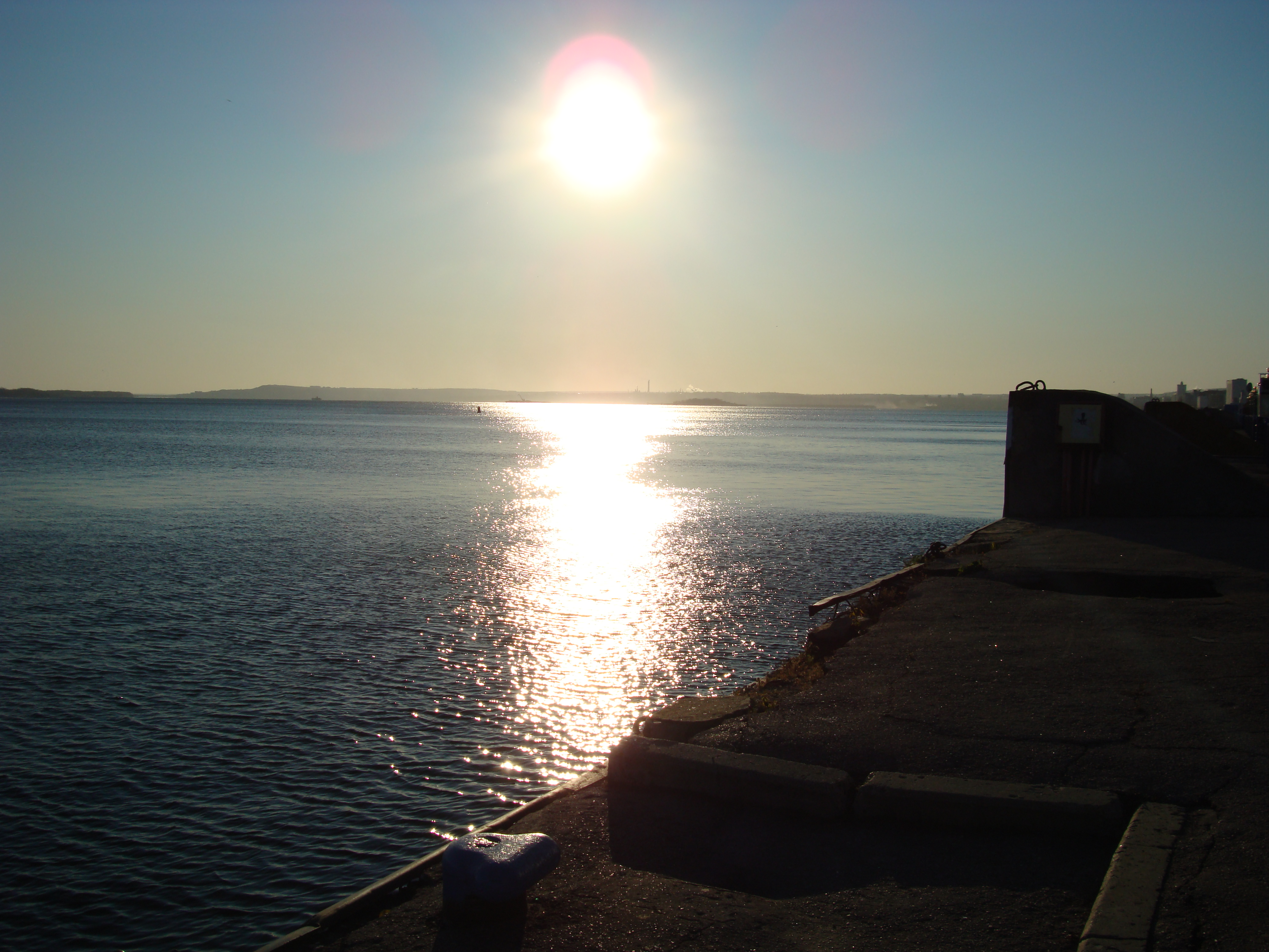 View on the Volga from Spacemen' Embankment, Saratov